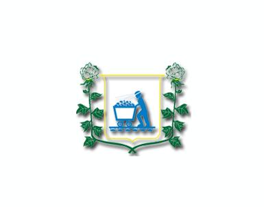 Flag of Lajes, a city in state of Rio Grande do Norte, in Brazil.